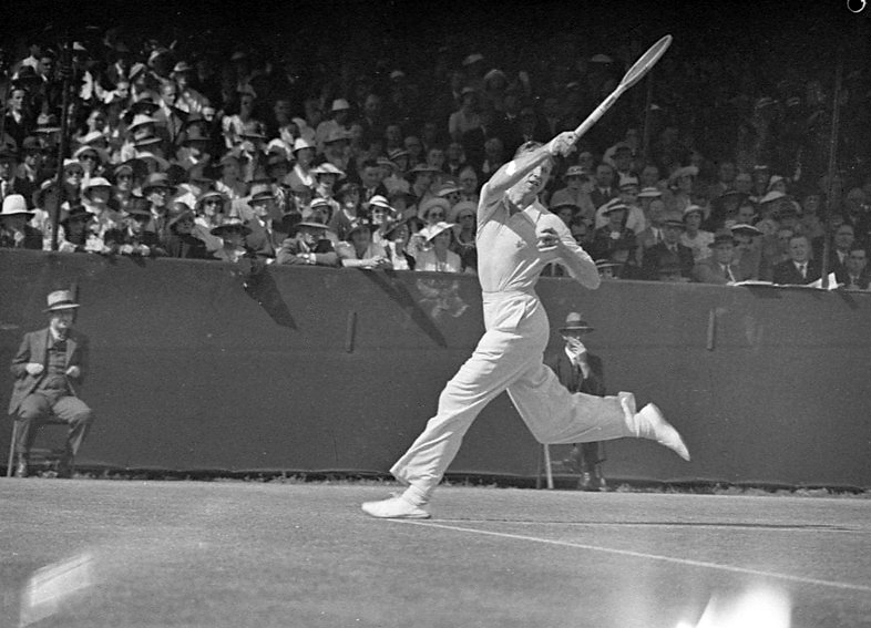 American tennis player Don Budge at the White City Stadium, Sydney.